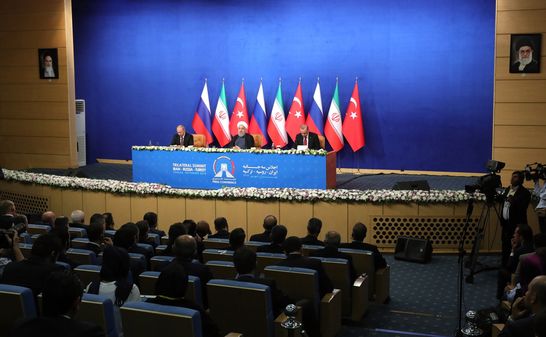 Trilateral Iran-Russia-Turkey Summit September 2018 in Tehran